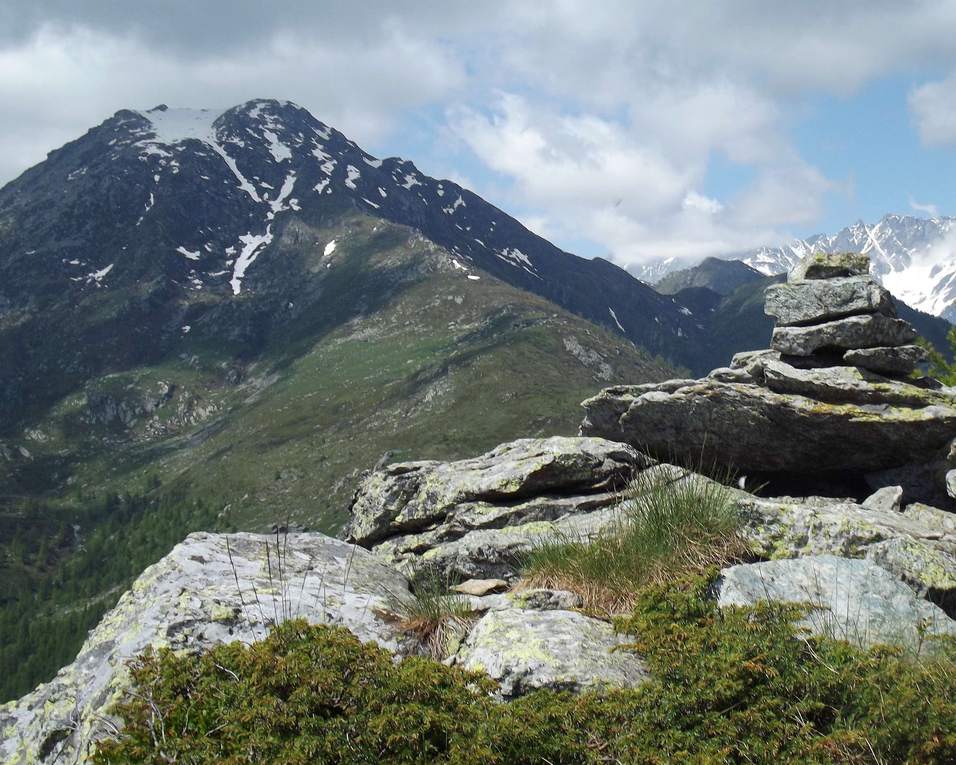 Monte Doubia (Graian Alps) from Monte Pellerin